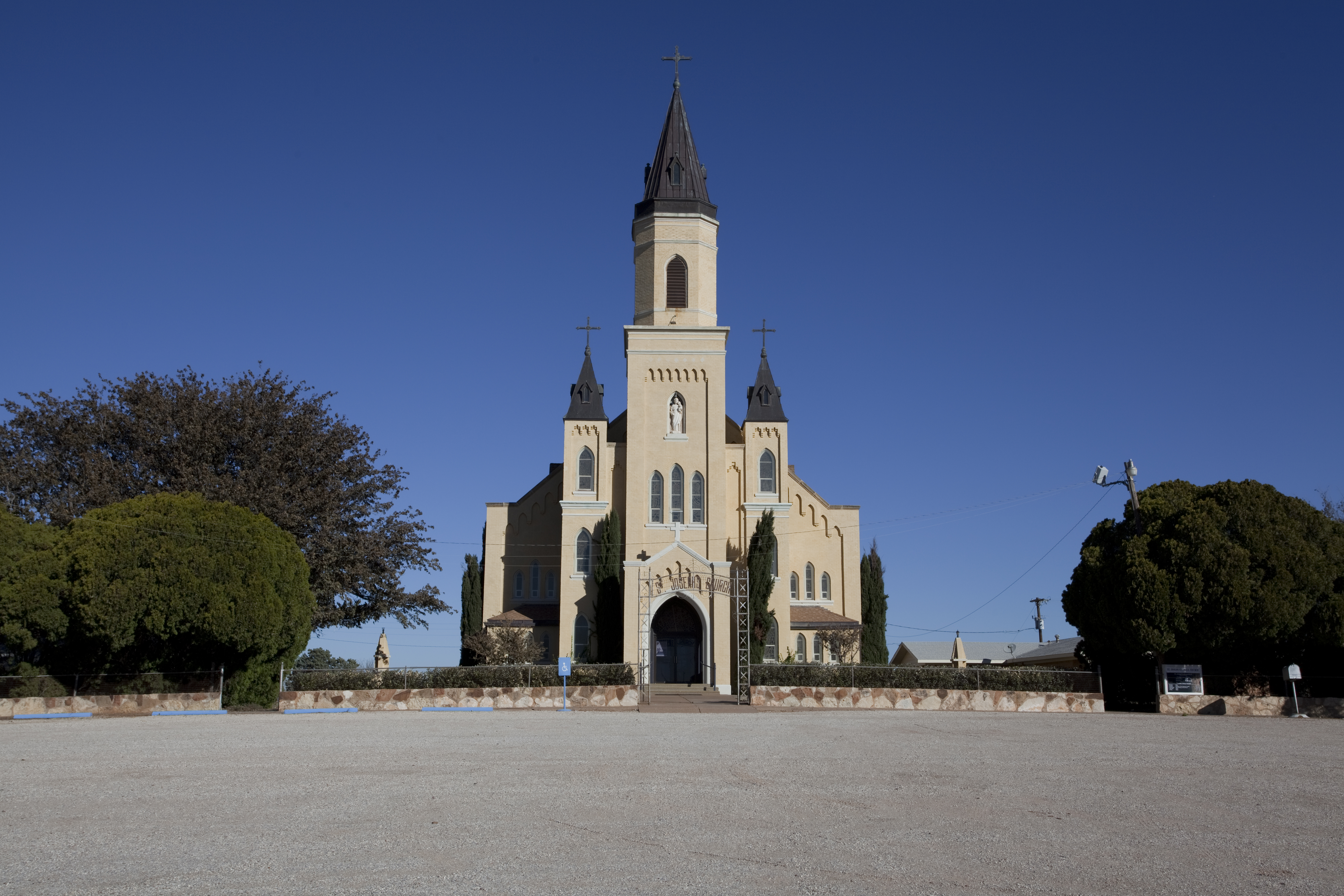 Saint Joseph's Church, Rhineland, Texas.